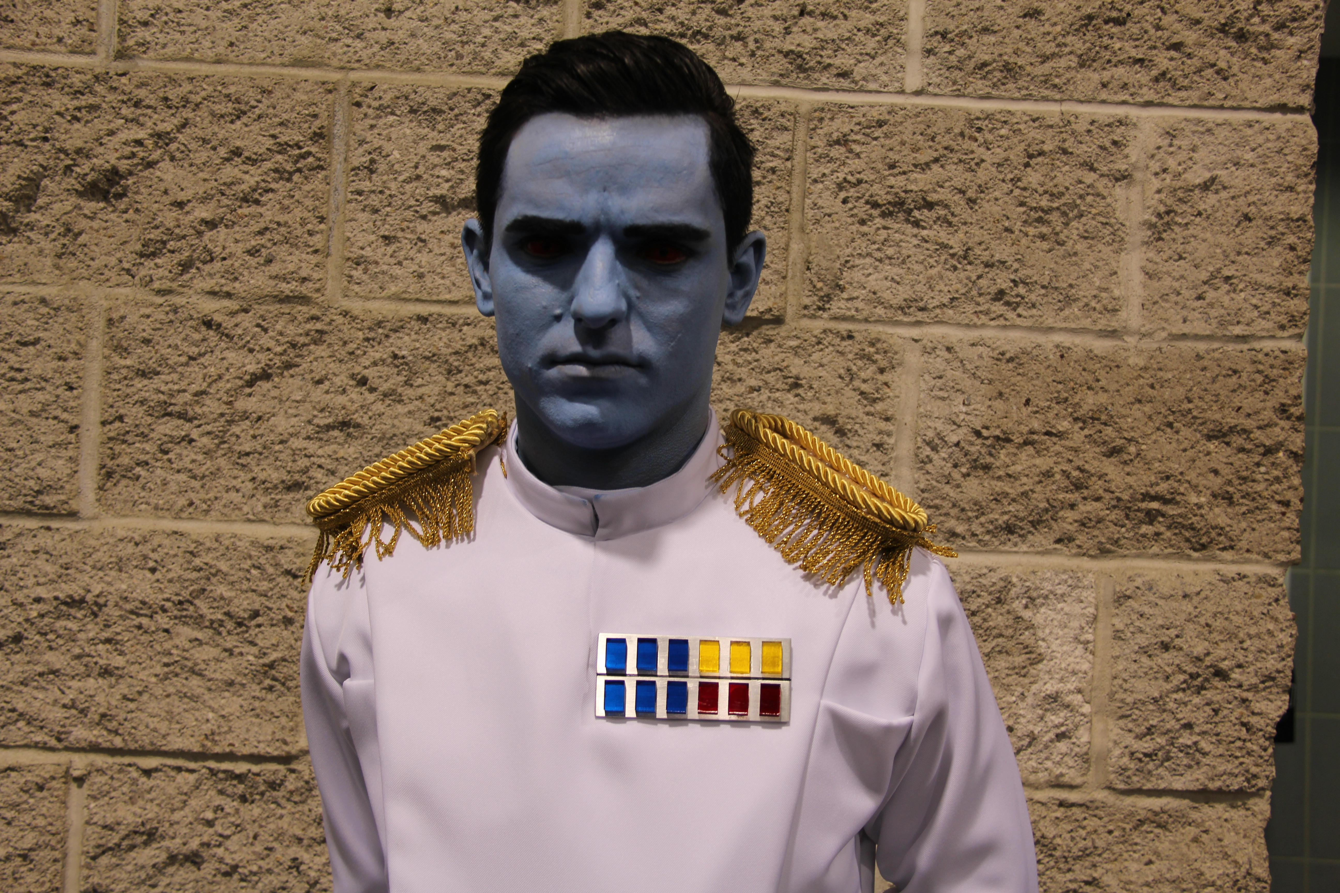 A cosplay of Grand Admiral Thrawn Star Wars Celebration in Anaheim, April 2015.